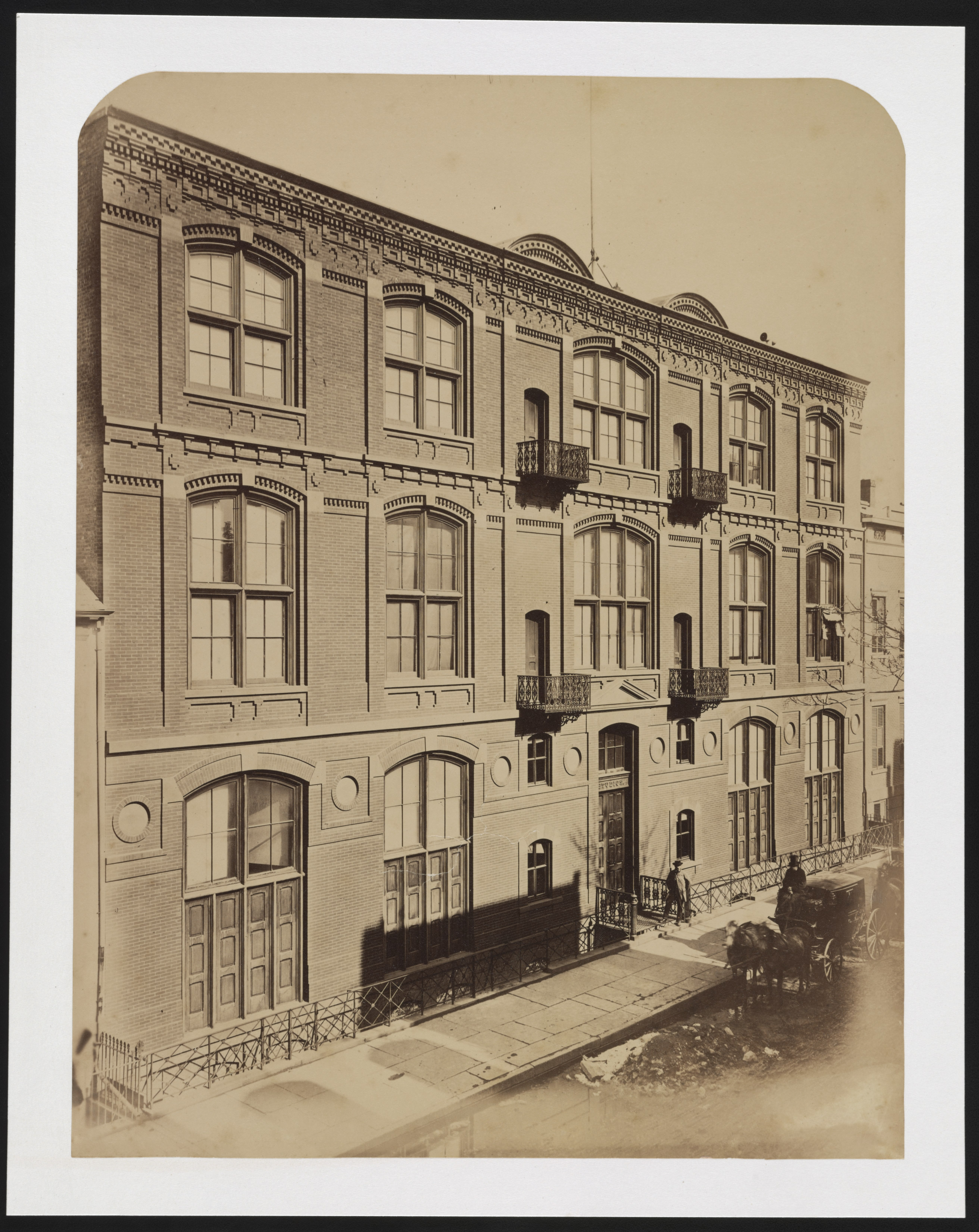 Title: Tenth Street Studio Building, 51 West 10th Street between Fifth and Sixth Avenues, New York, New York Abstract/medium: 1 photographic print : albumen ; 404 x 323 mm (mount)